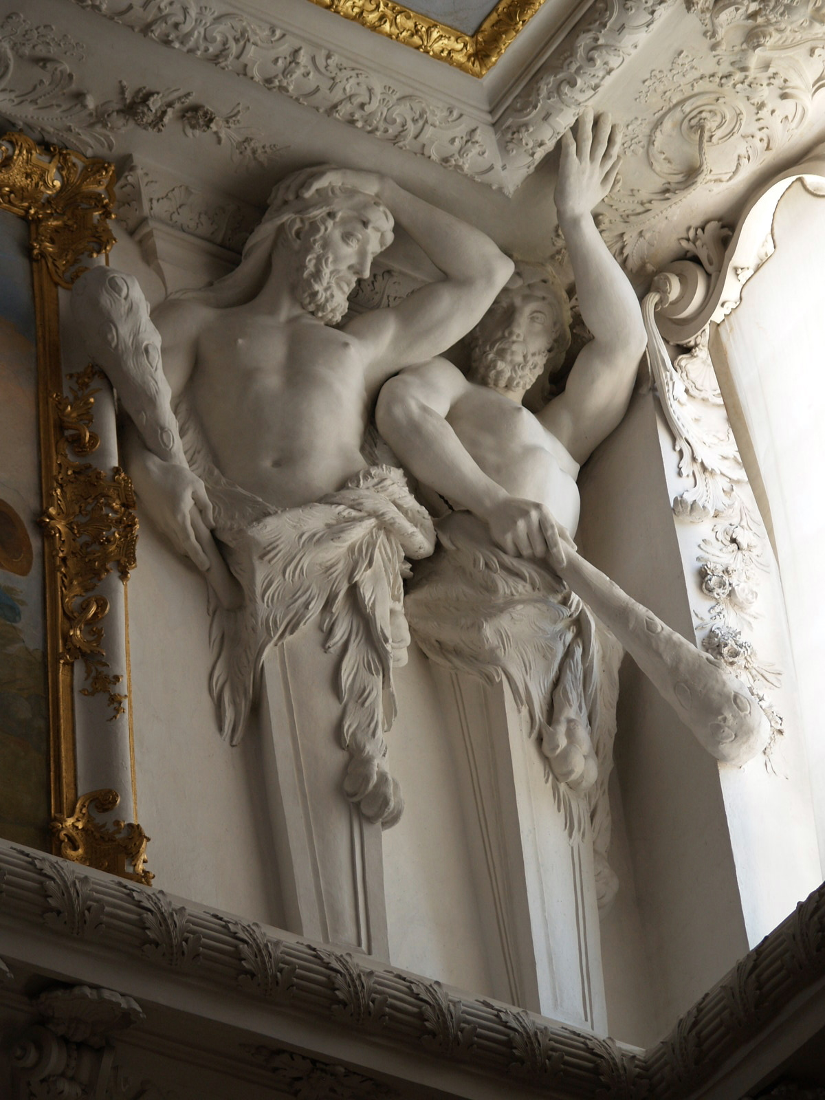 Foto